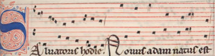 Salvatoris hodie. Novus Adam natus est by Perotin. From Magnus liber organi F 307